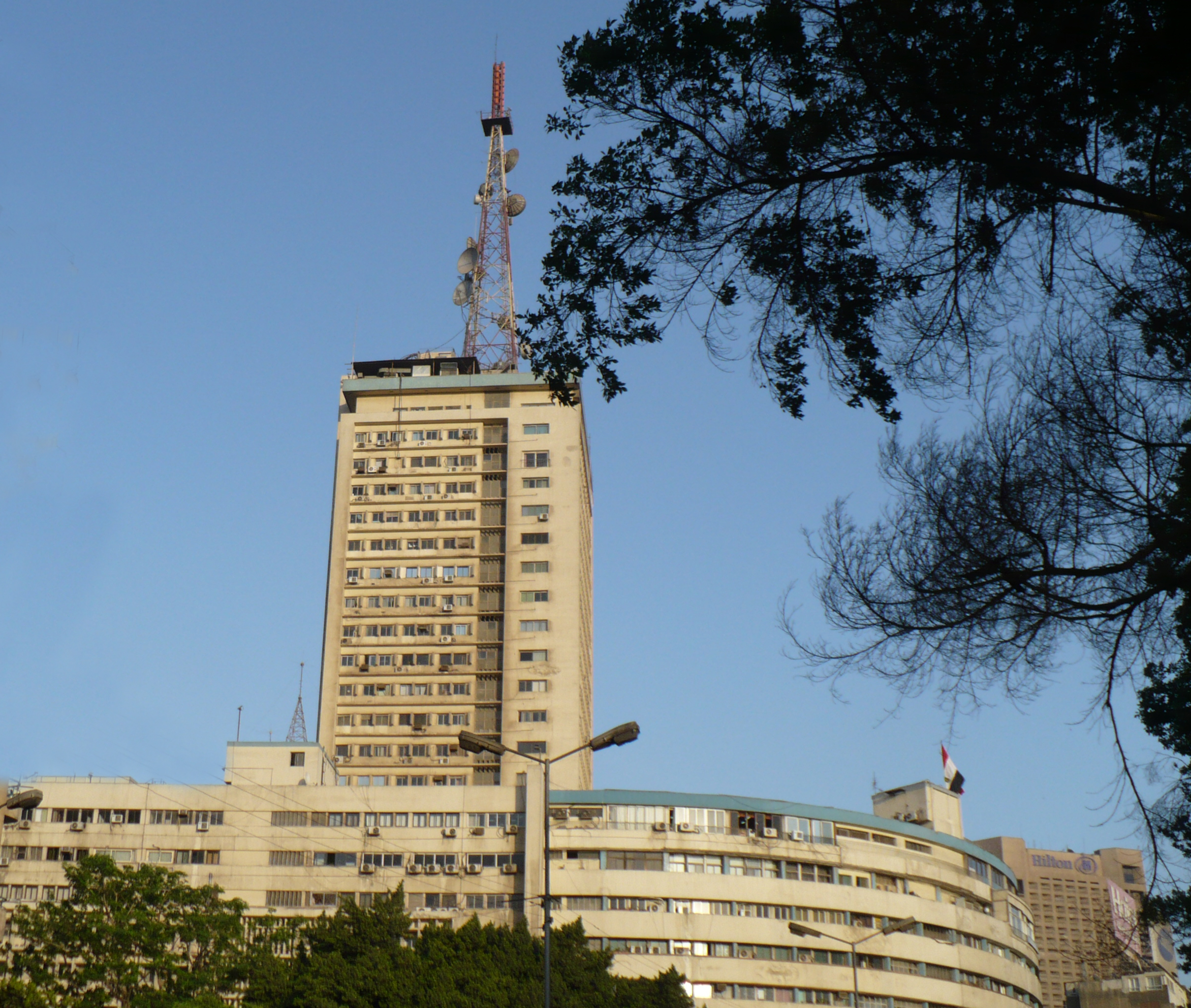 Maspiro Building (Egyptian Radio & Television Union HQ)